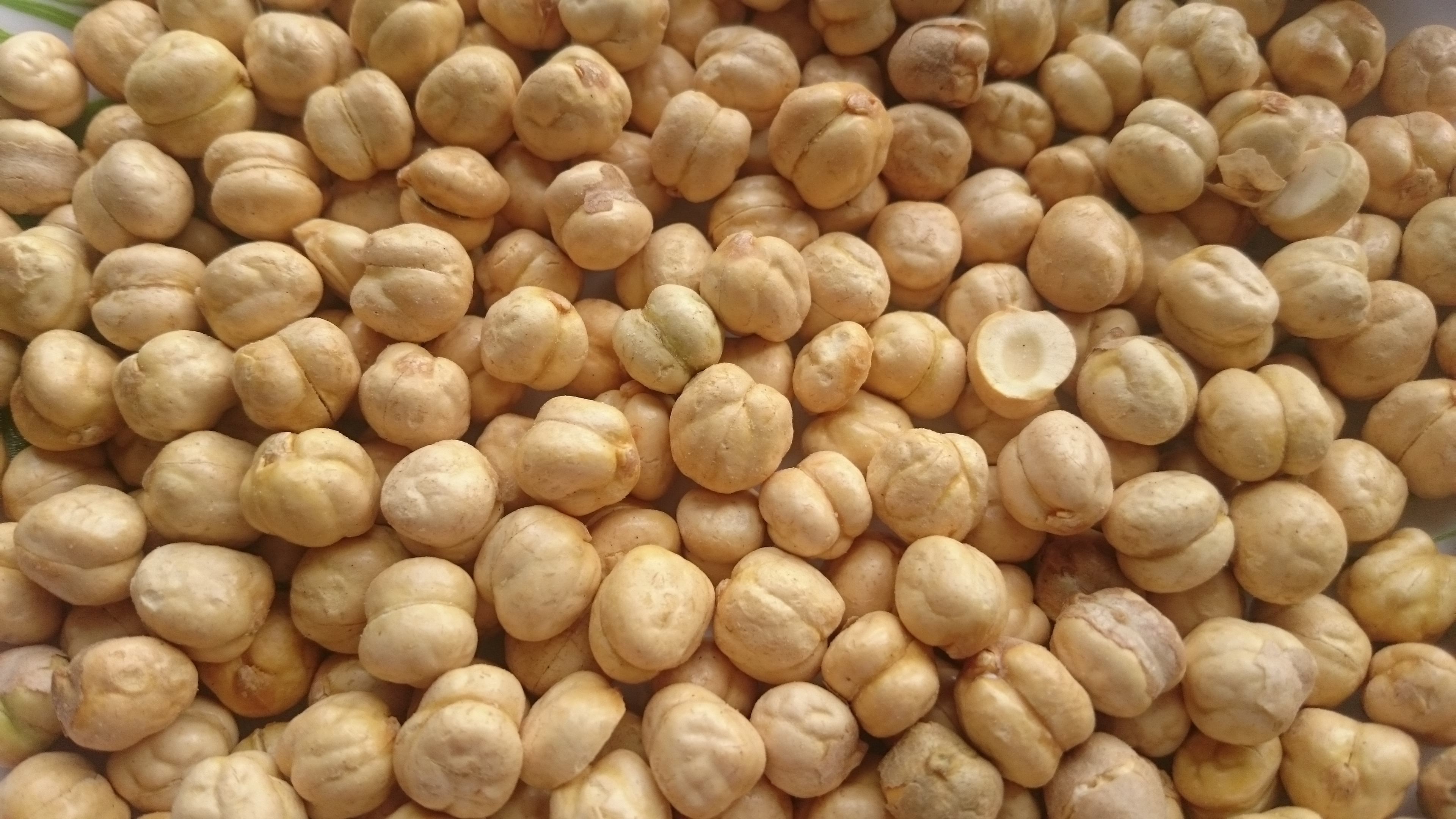 Roasted grams or chickpeas